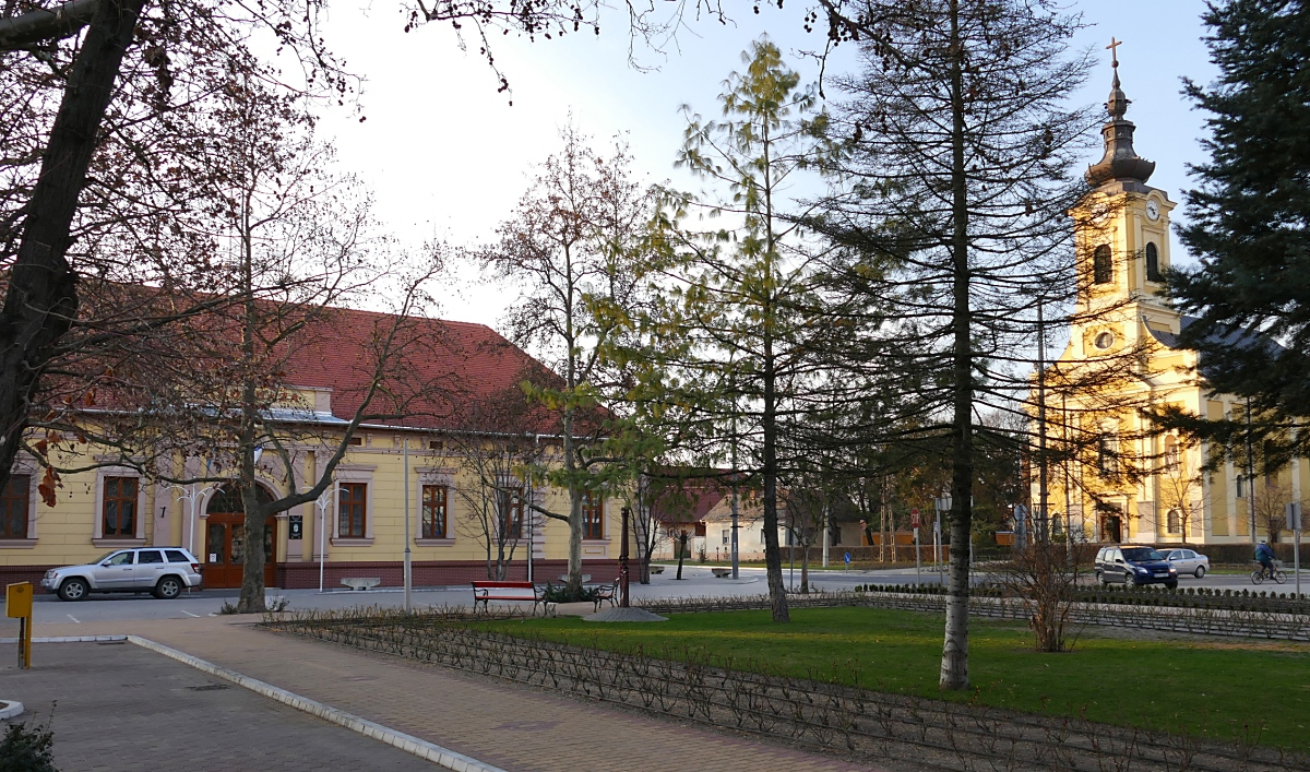 Monument of 1956 revolution in Tiszakécske, Hungary